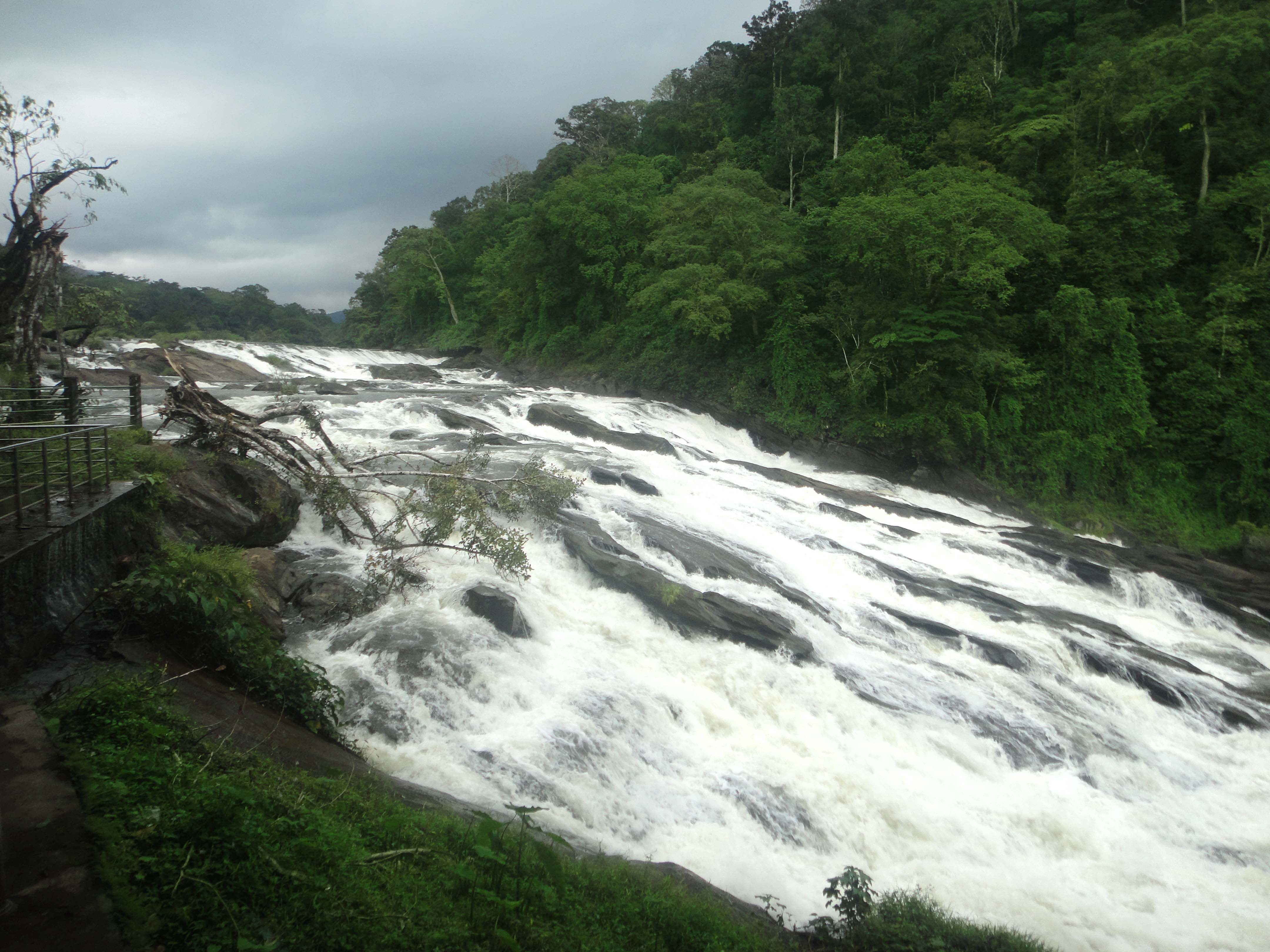 Vazhachal Falls